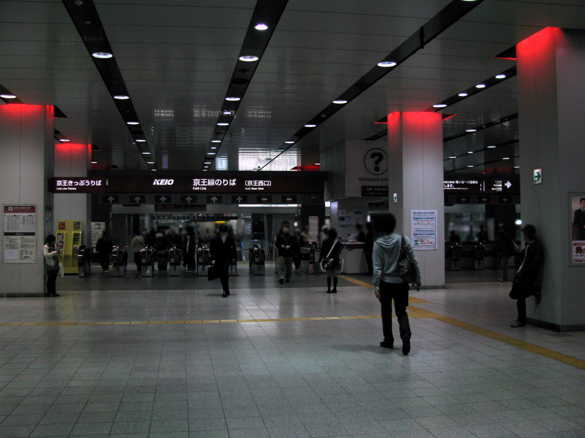 Keio Line Shinjuku Station